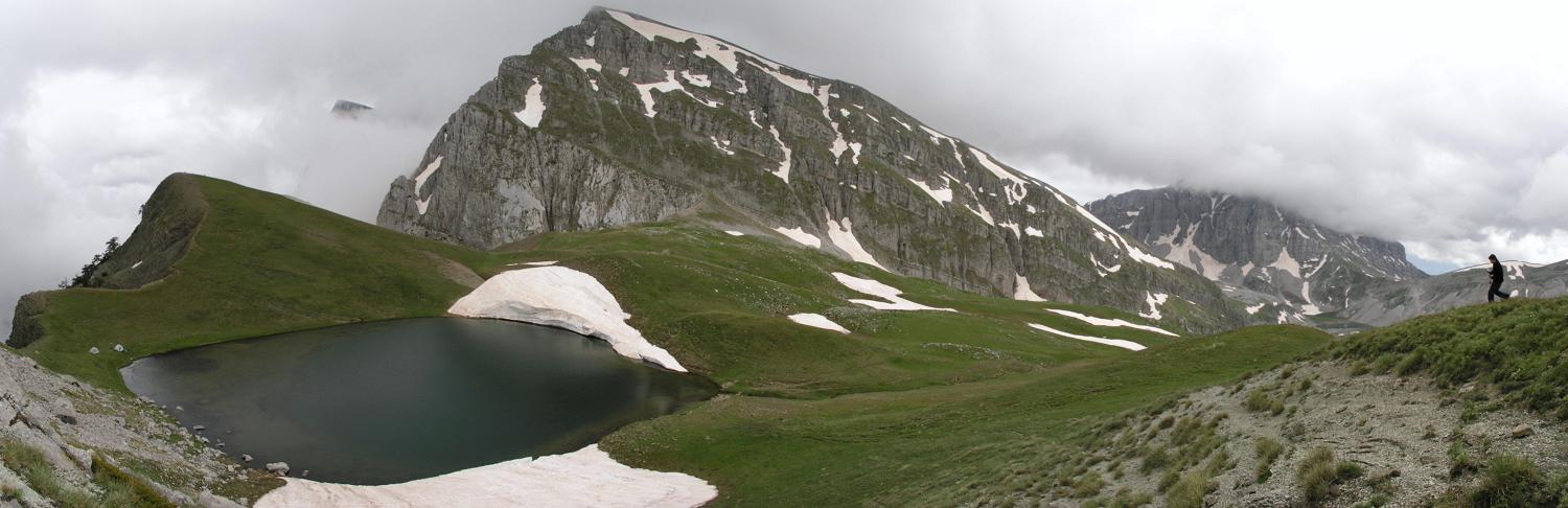 Panoramic view of Drakolimni, overlooked by Ploskos peak (center) and Astraka peak (right).